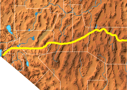 The "Central Route" through Nevada, with modern county boundaries for reference. Summary The "Central Route" through Nevada, with modern county boundaries for reference.